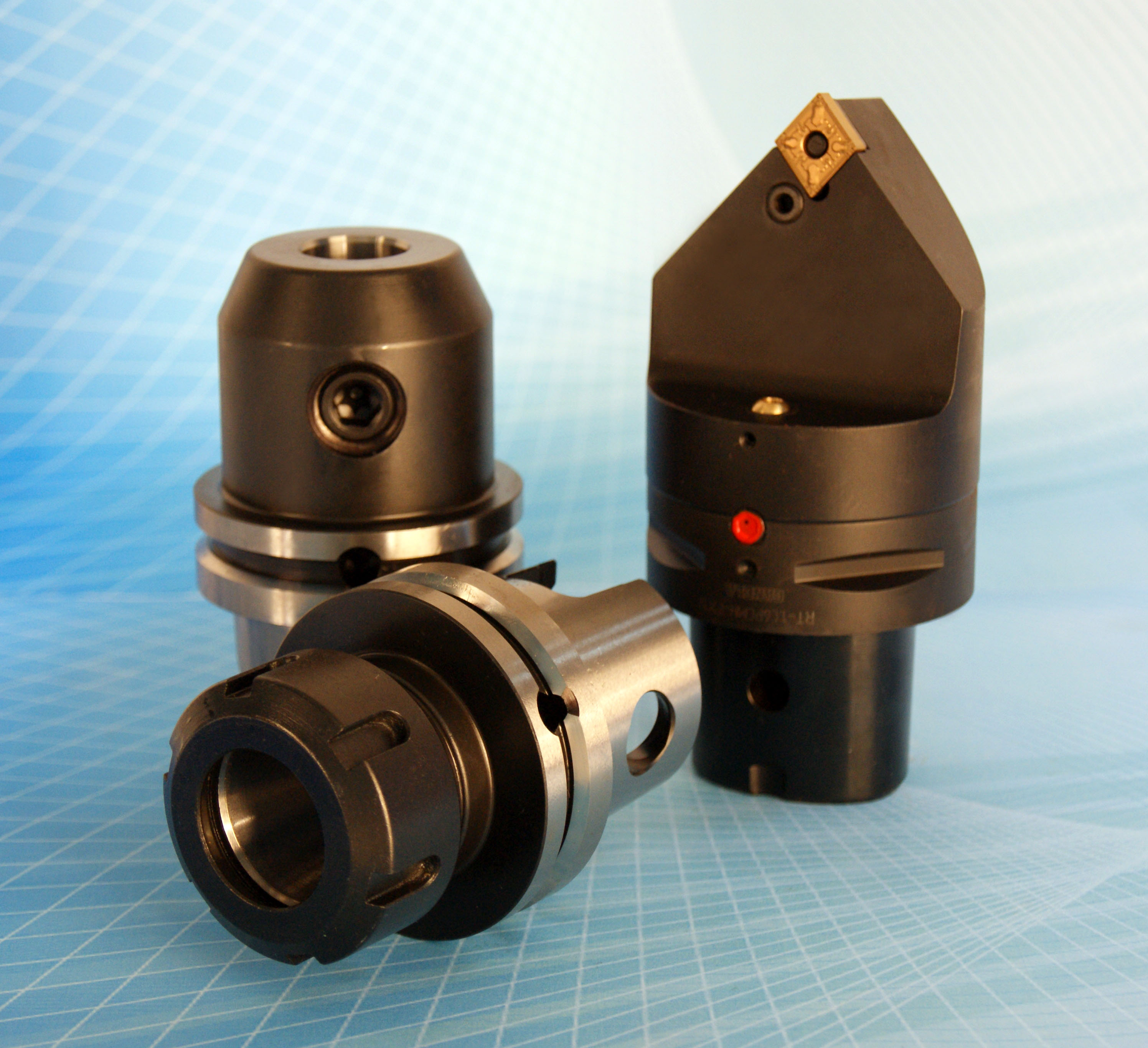 Canela tooling systems offer maximum precision and reliability.